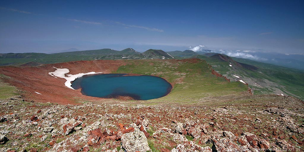 Azhdahak Volcano (3597 m) the highest point of the Geghama Mountain Range in Armenia. Courtesy of Łukasz Bujonek. Original file location on Panoramio, released under the Creative Commons Attribution Sharealike 3.0 license.